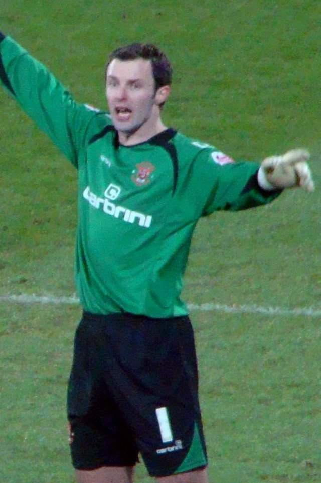 09/01/10 Cardiff V Blackpool, Cardiff City Stadium, Cardiff, Wales